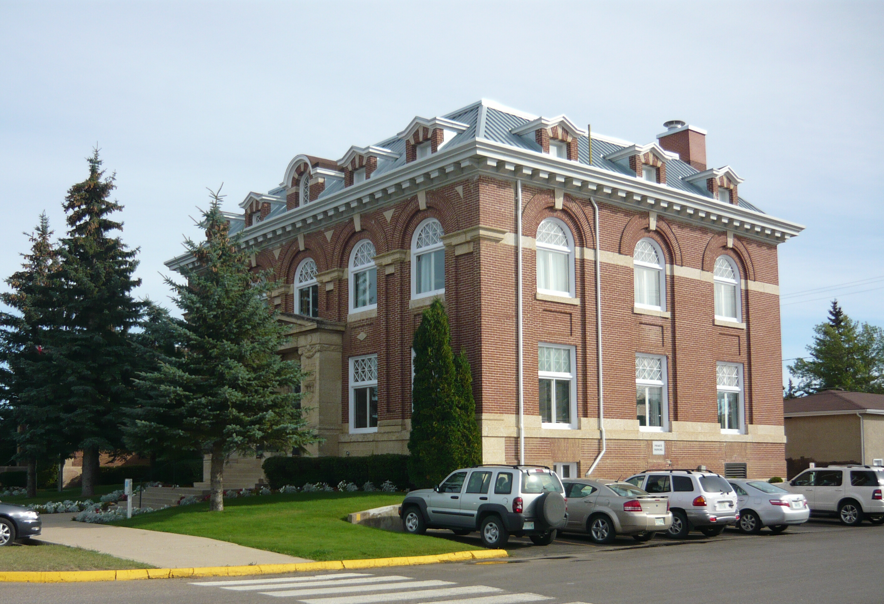 Battleford Court House, 291 23rd Street West (corner of Third Avenue), Battleford, Saskatchewan, Canada. Constructed 1907-09.